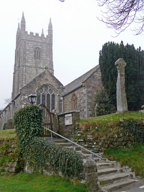 St. Meubred's church, Cardinham View from the east with a fine example of a Celtic Cross, framed by a yew, to the right of the steps.